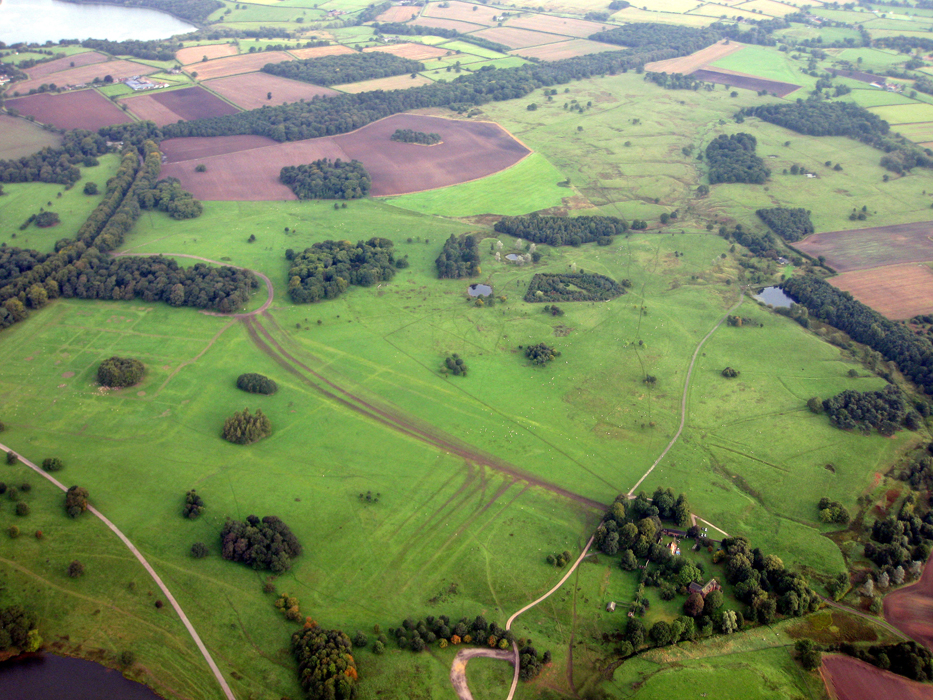 Aerial view of Tatton Park looking northwest over the wartime parachutist landing area